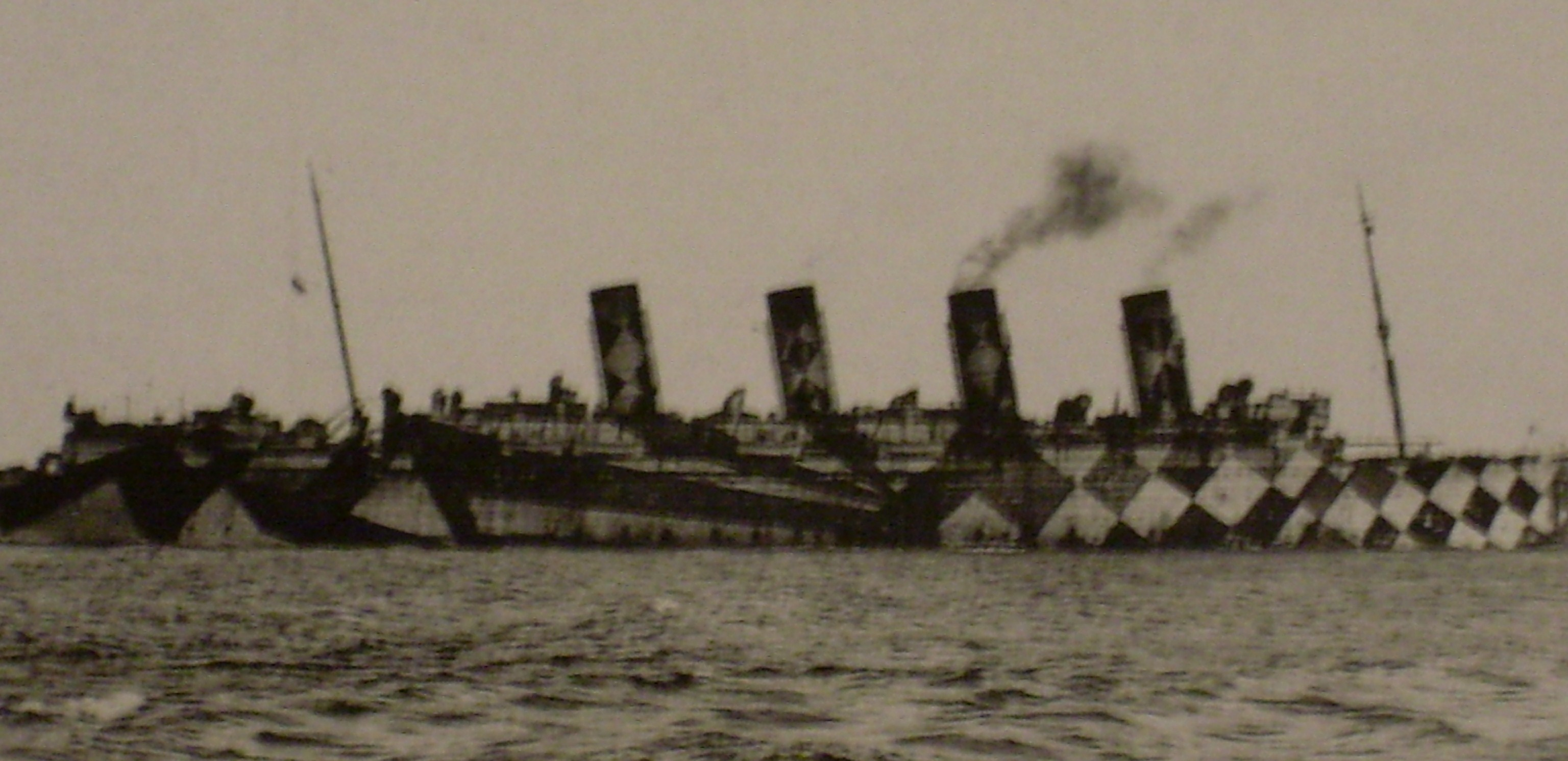 RMS Mauretania during World War I